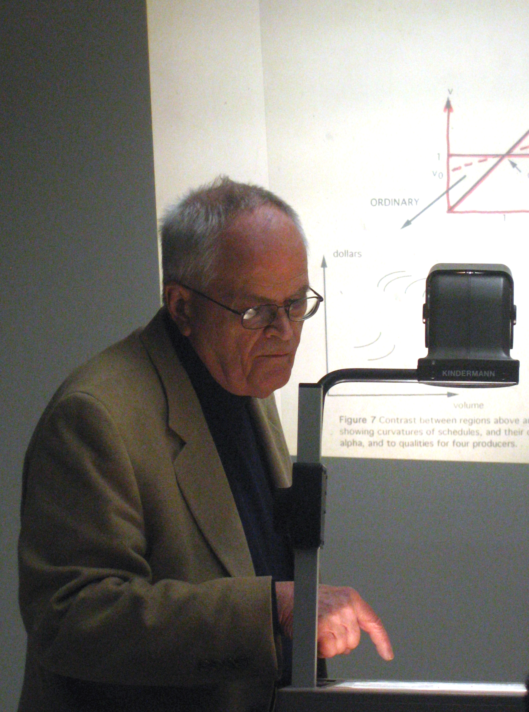 Harrison White at the Category:Freie Universität Berlin (2005)